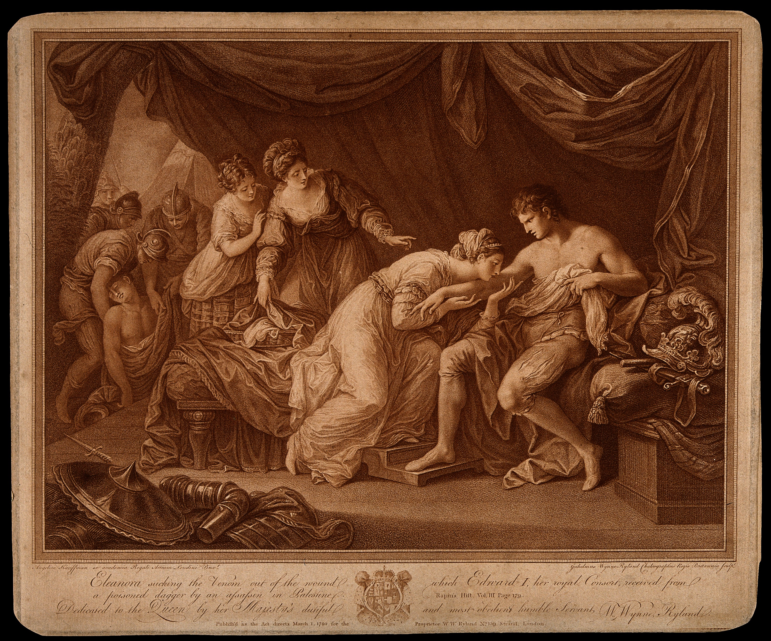 Queen Eleanor sucking the poison from King Edward's arm. Coloured stipple etching by . Wynne Ryland, 1780, after A. Kauffman. Iconographic Collections Keywords: Eleanor; Angelica Kauffman; Edward I; William Wynne Ryland